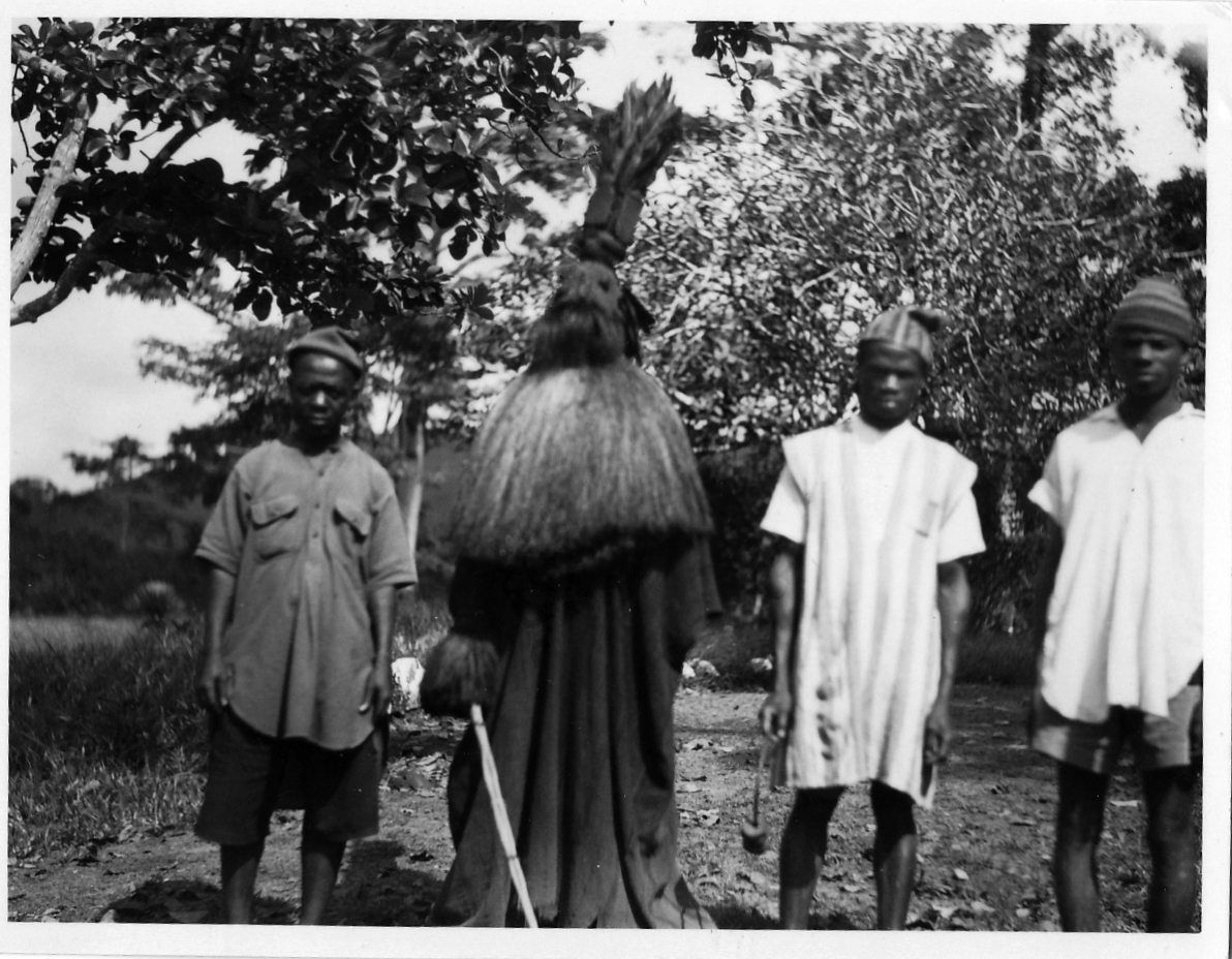 A "falui" masker, a one-armed warrior spirit, Panguma (Sierra Leone), 1936